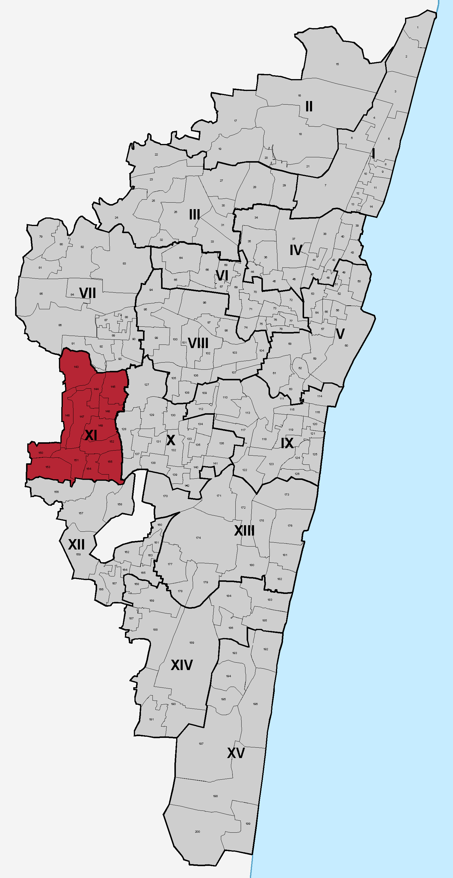 Location of Valasaravakkam zone in Chennai